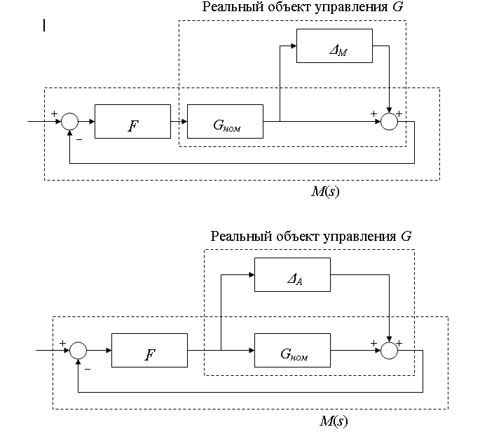 Additive and multiplicative uncertainty in a control system loop